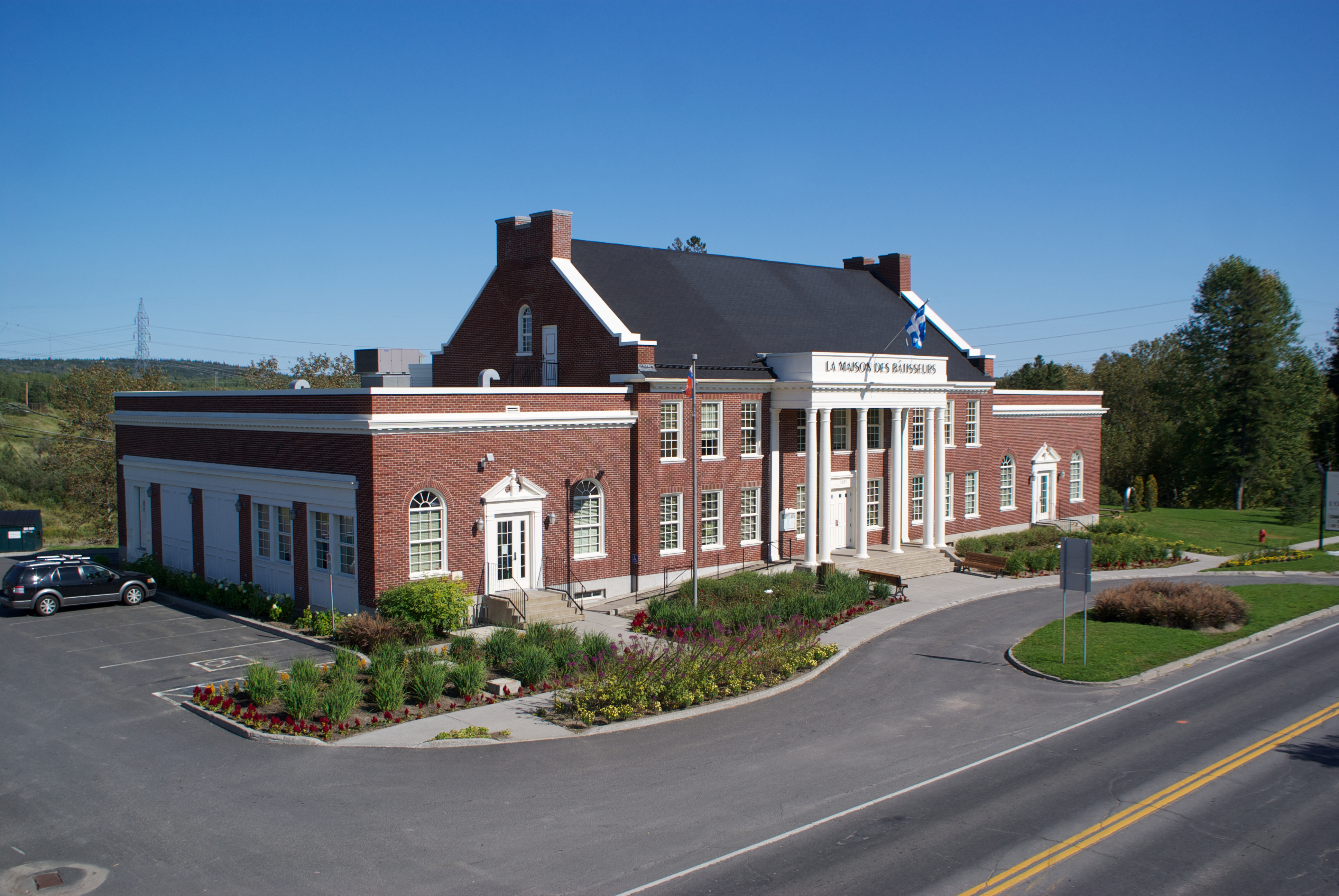 Former Isle Maligne City Hall